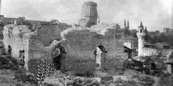 The Kasim Aga mosque in Istanbul viewed from South after the fire of 1919 with the Odalar mosque in the background